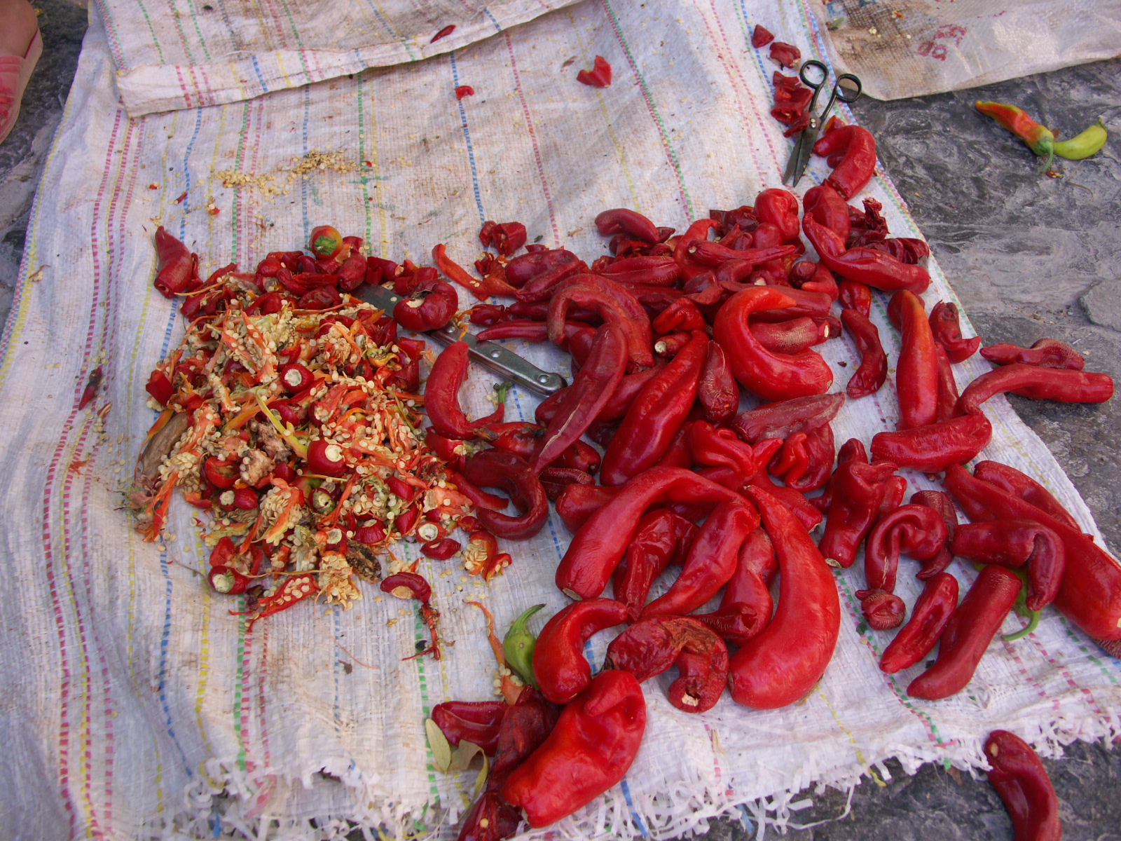 "Felfel" : the Kabyle spice.